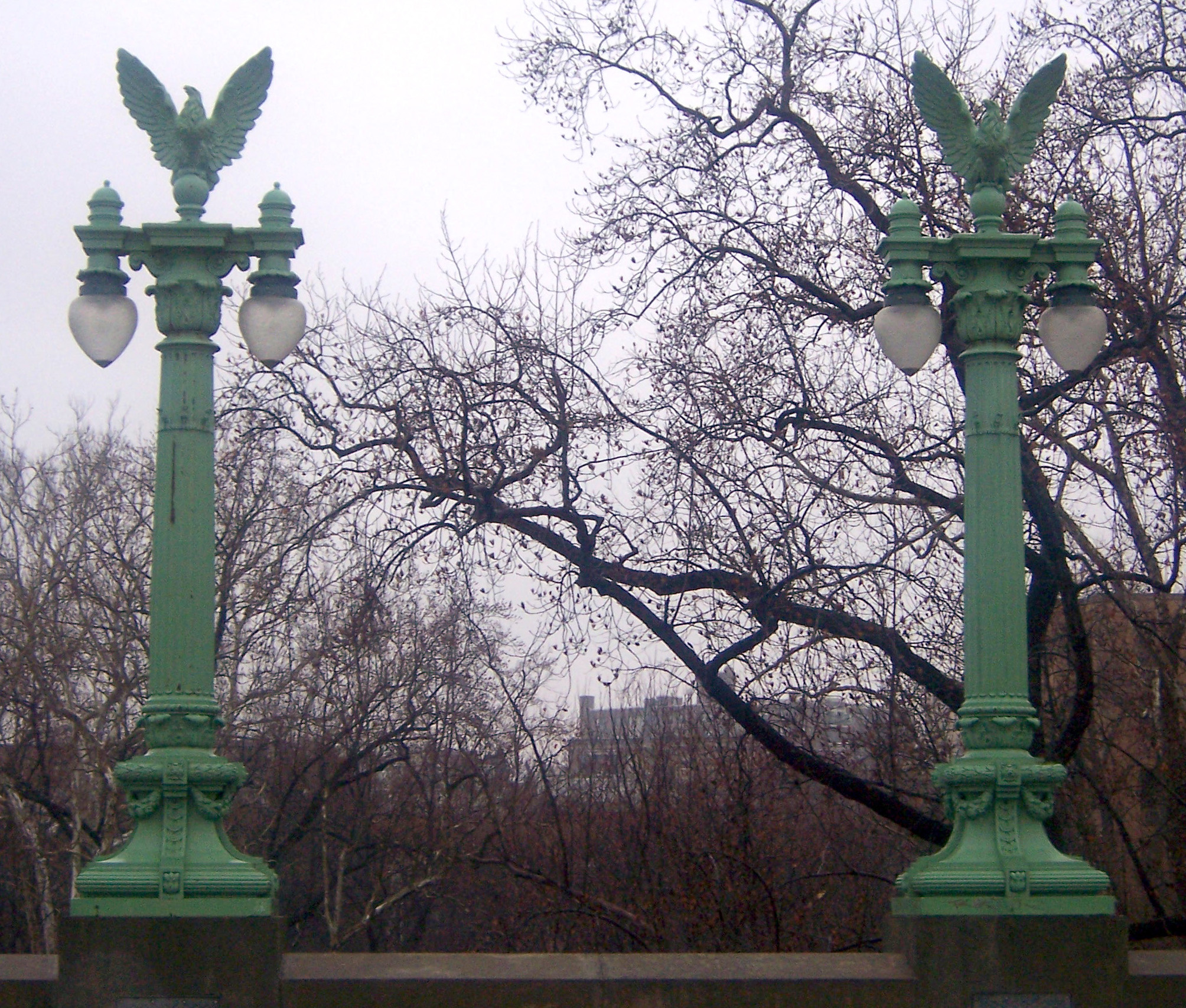 The William Howard Taft memorial bridge on Connecticut Ave. NW in Washington DC.